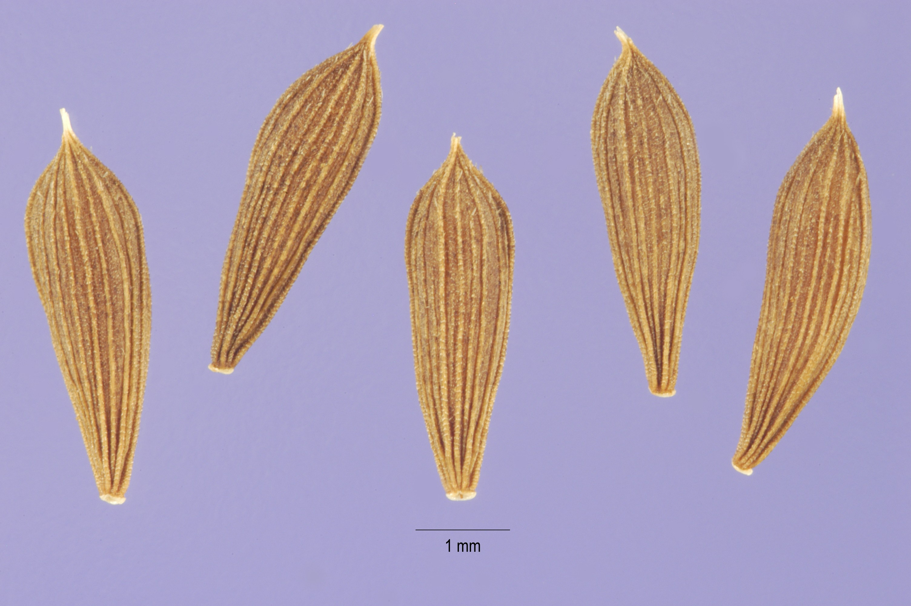 Lactuca saligna cipselae with beaks removed.